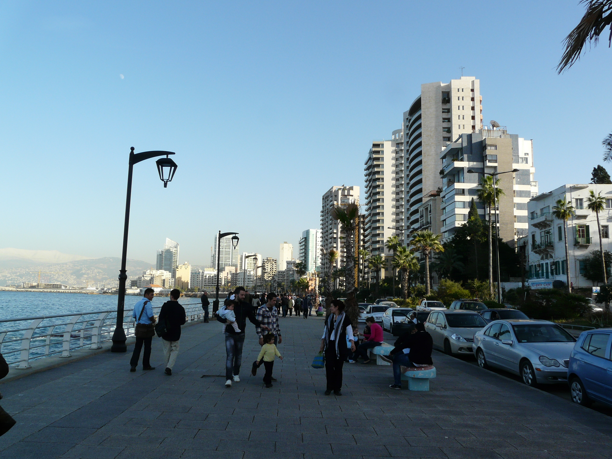 Corniche